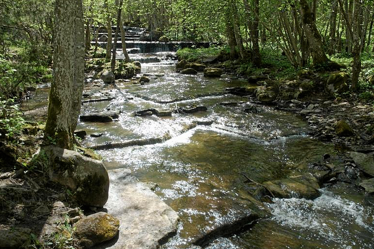 Rapids on Karlsfors creek in the nature reserve "Silverfallen-Karlsfors" in the Swedish municipality of Skövde.